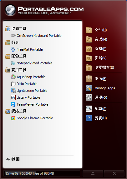 中文（台灣）: PA.c Platform captured by Lightscreen.